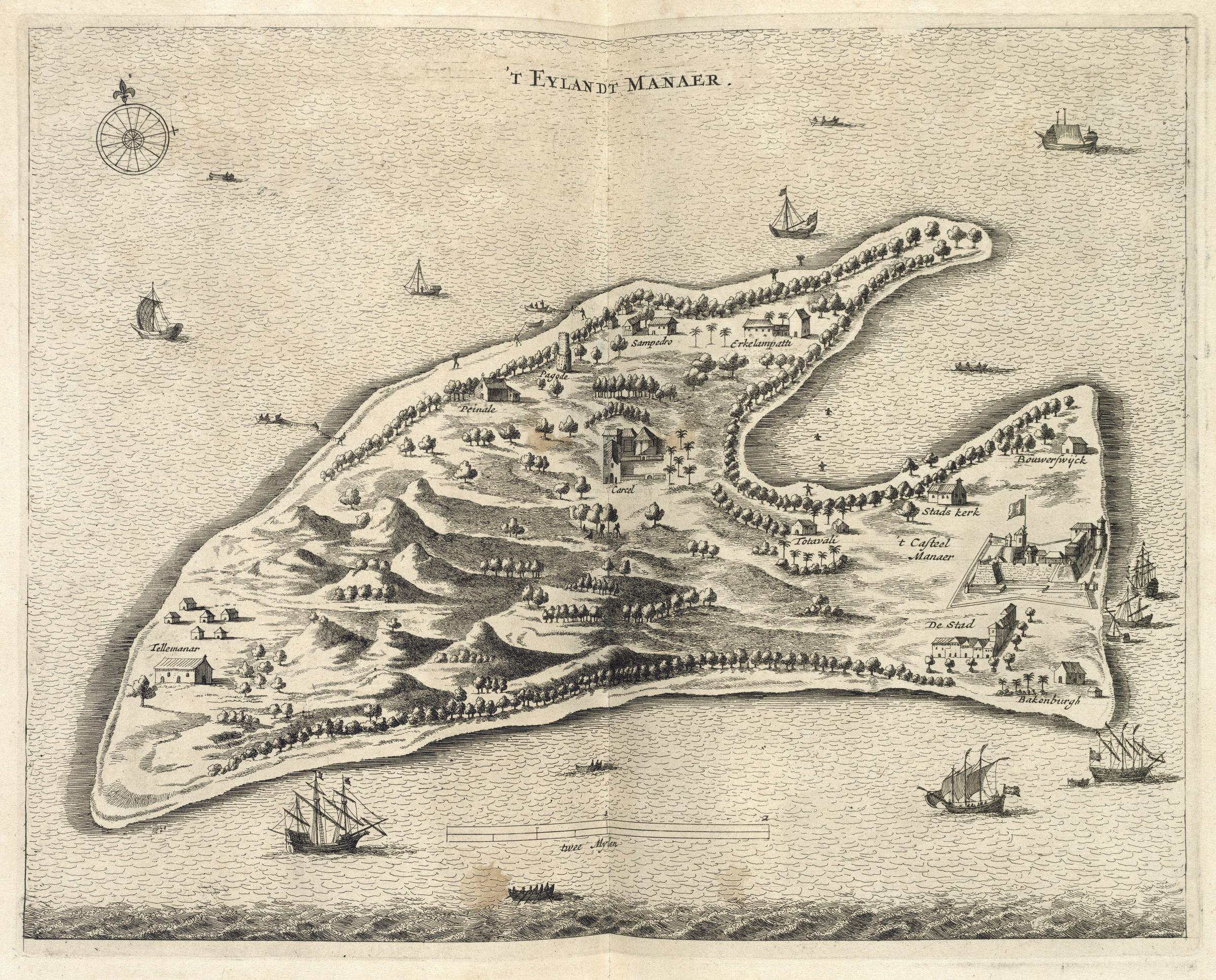 Bird's eye view of the island of Manaar. -'t Eylandt Manaer. On the right the fort is depicted.